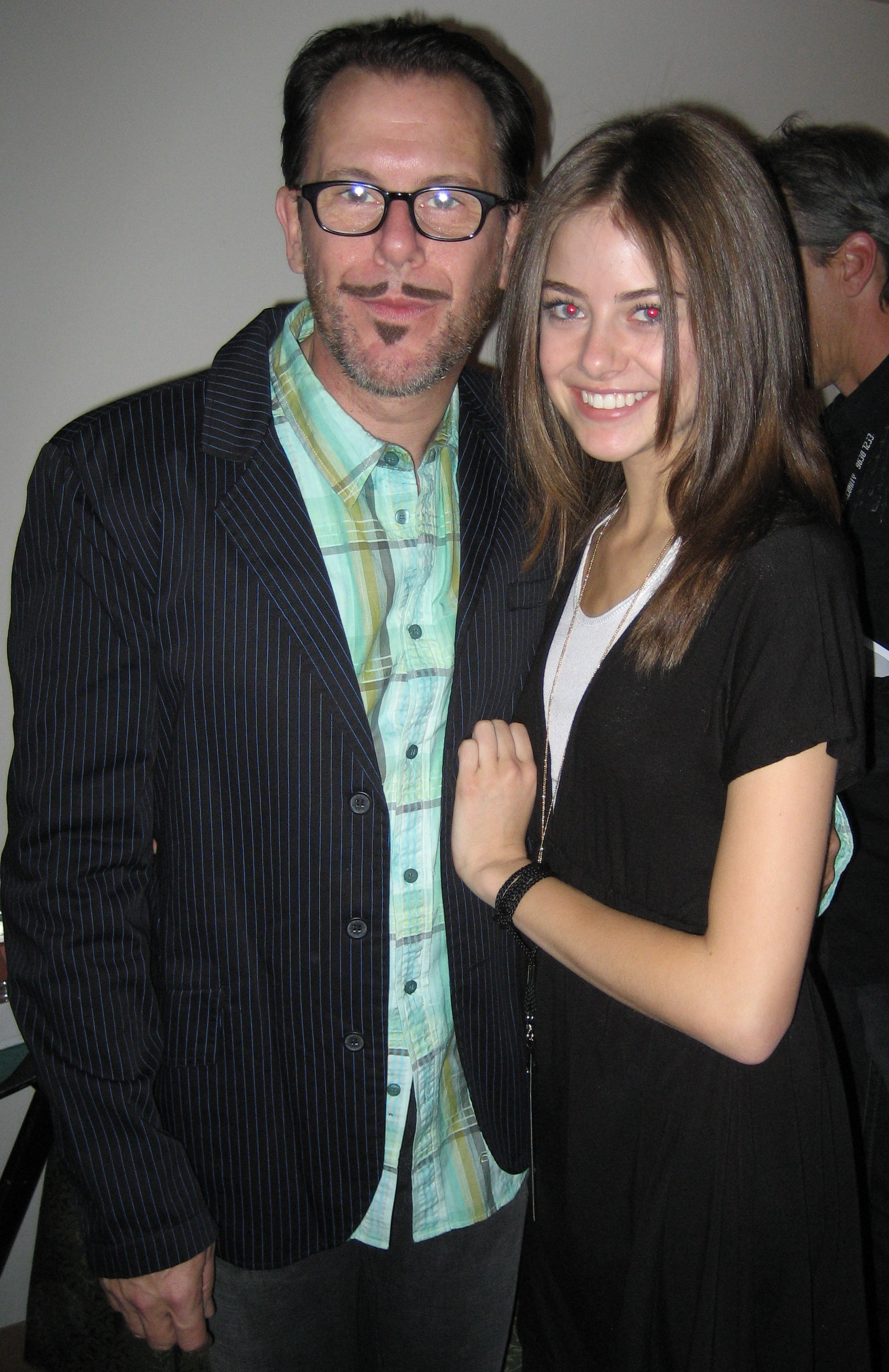 Kirk Pengilly and daughter April Rose.